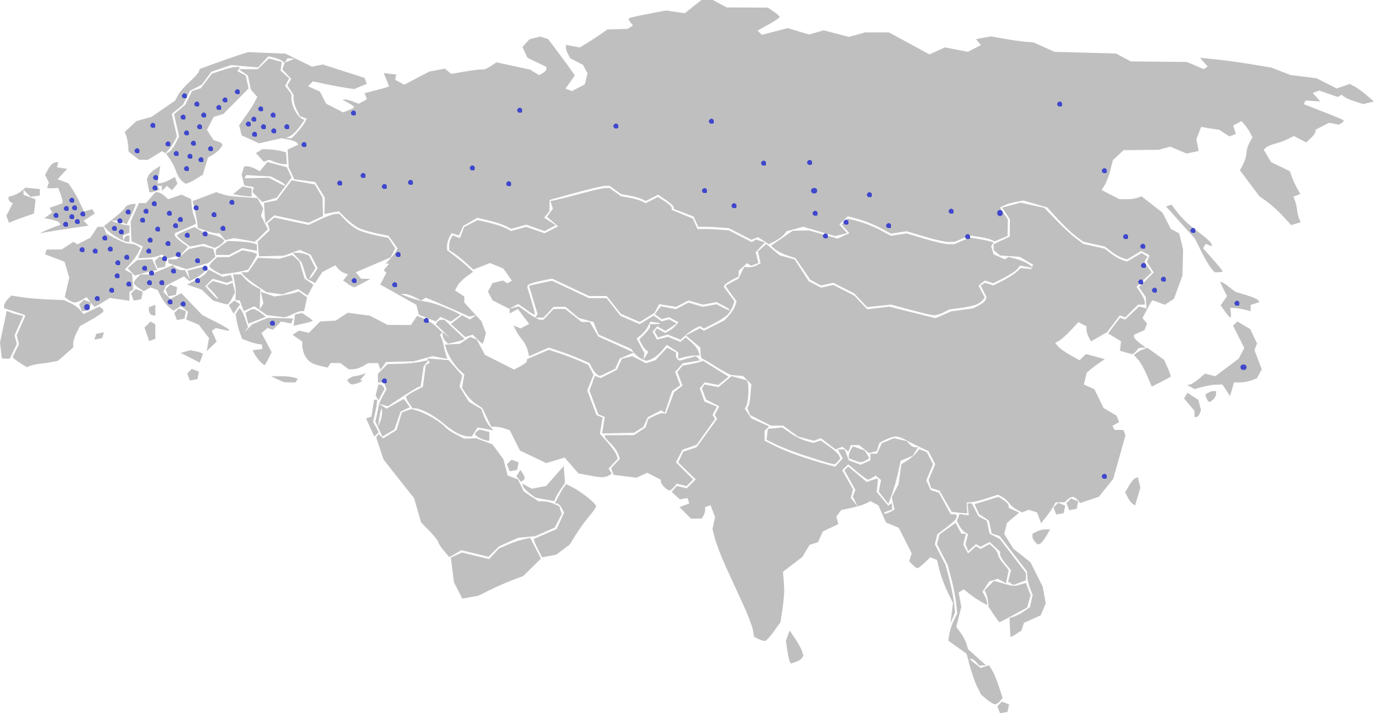 This image of Eurasia contains dots that represent distribution of the wasp Dolichovespula media.